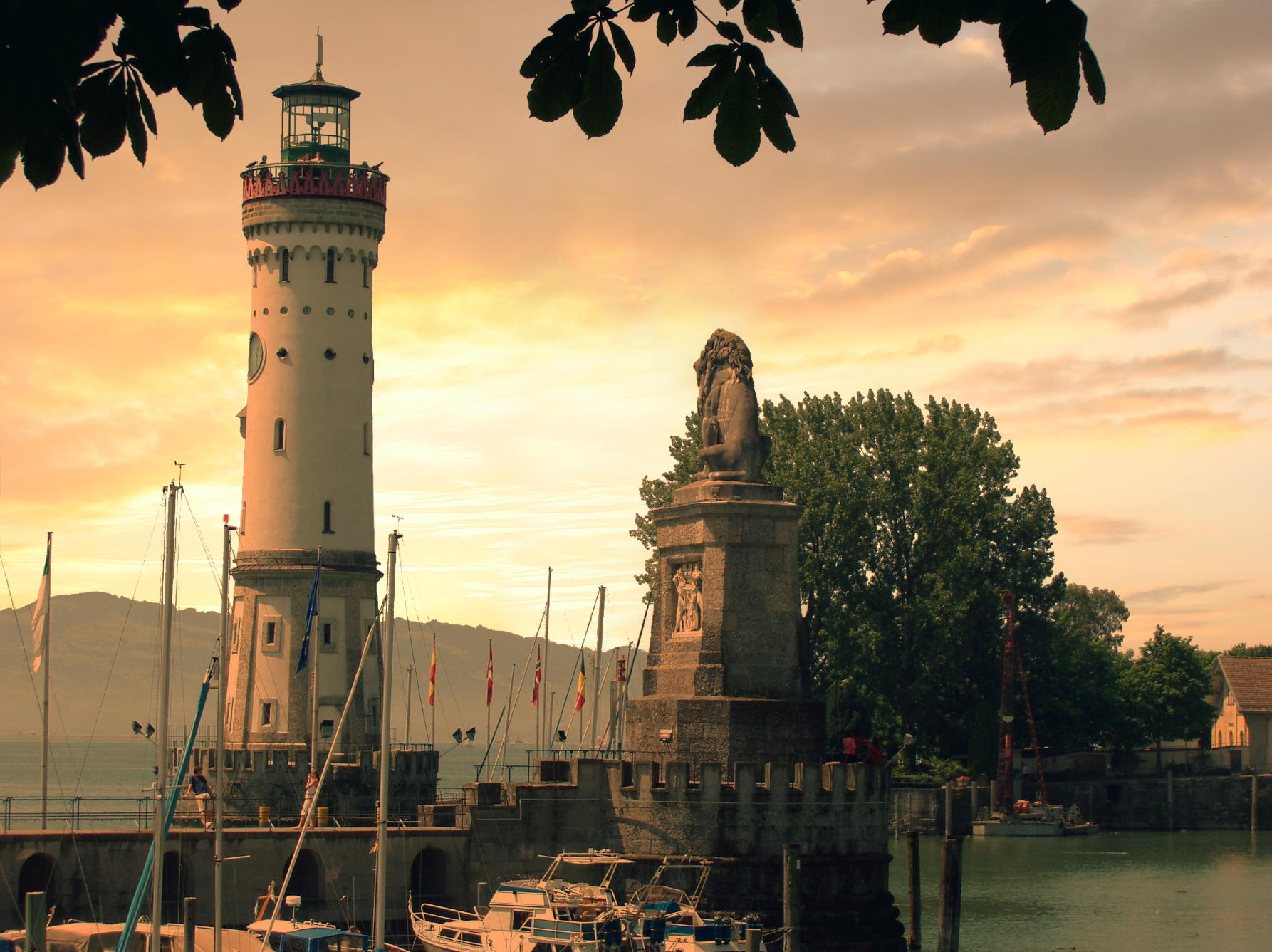 Lindau at Lake Constance, Germany. This picture is subject of post editing, the original scene has blue sky and was shot about noon. This is visible trough the embedded preview thumbnail.